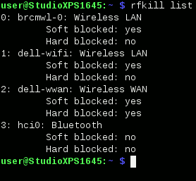 Command line output of version 0.4 of the utility rfkill, listing the block state (rfkill list) of radio devices in a Dell Studio XPS 1645 laptop.